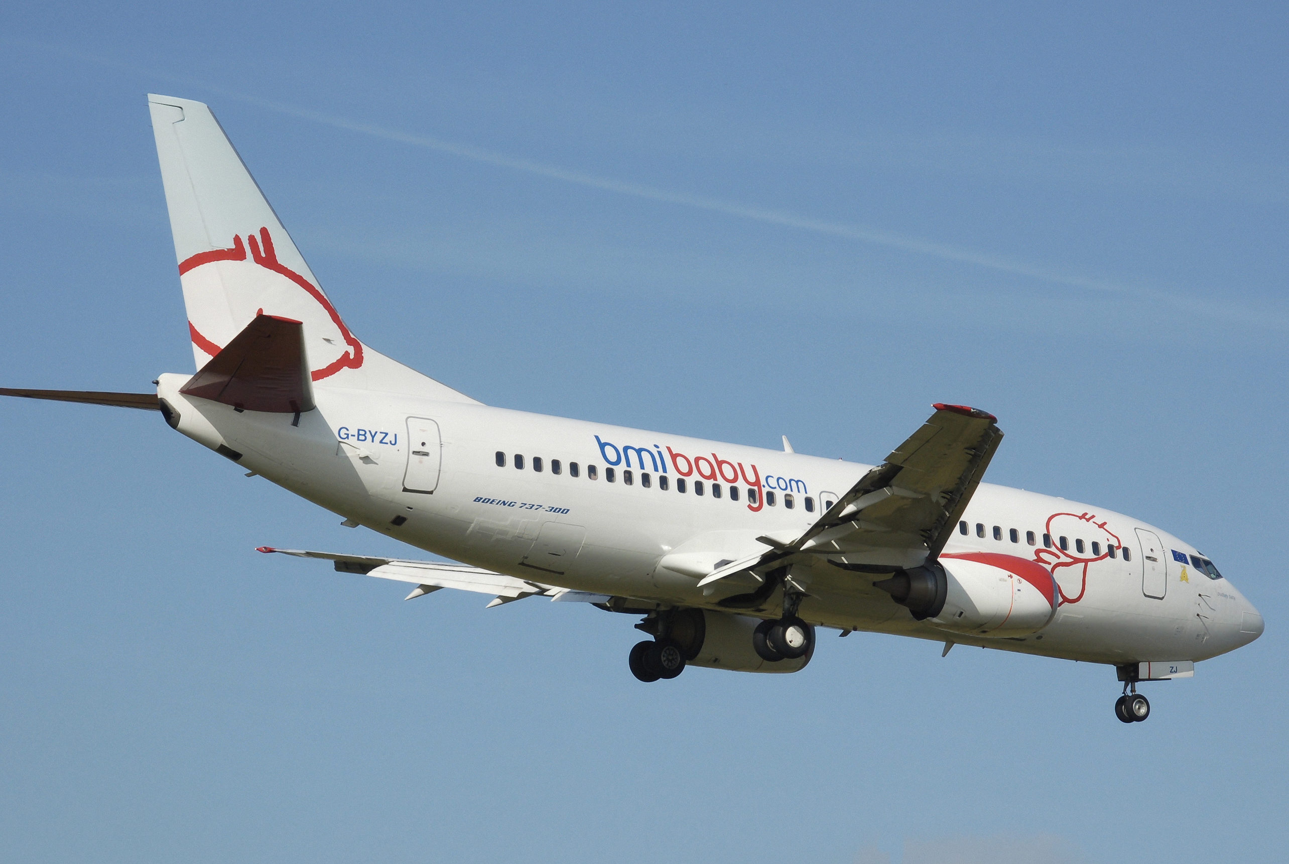 bmibaby Boeing 737-300 (G-BYZJ) landing at Birmingham International Airport, Birmingham, England.